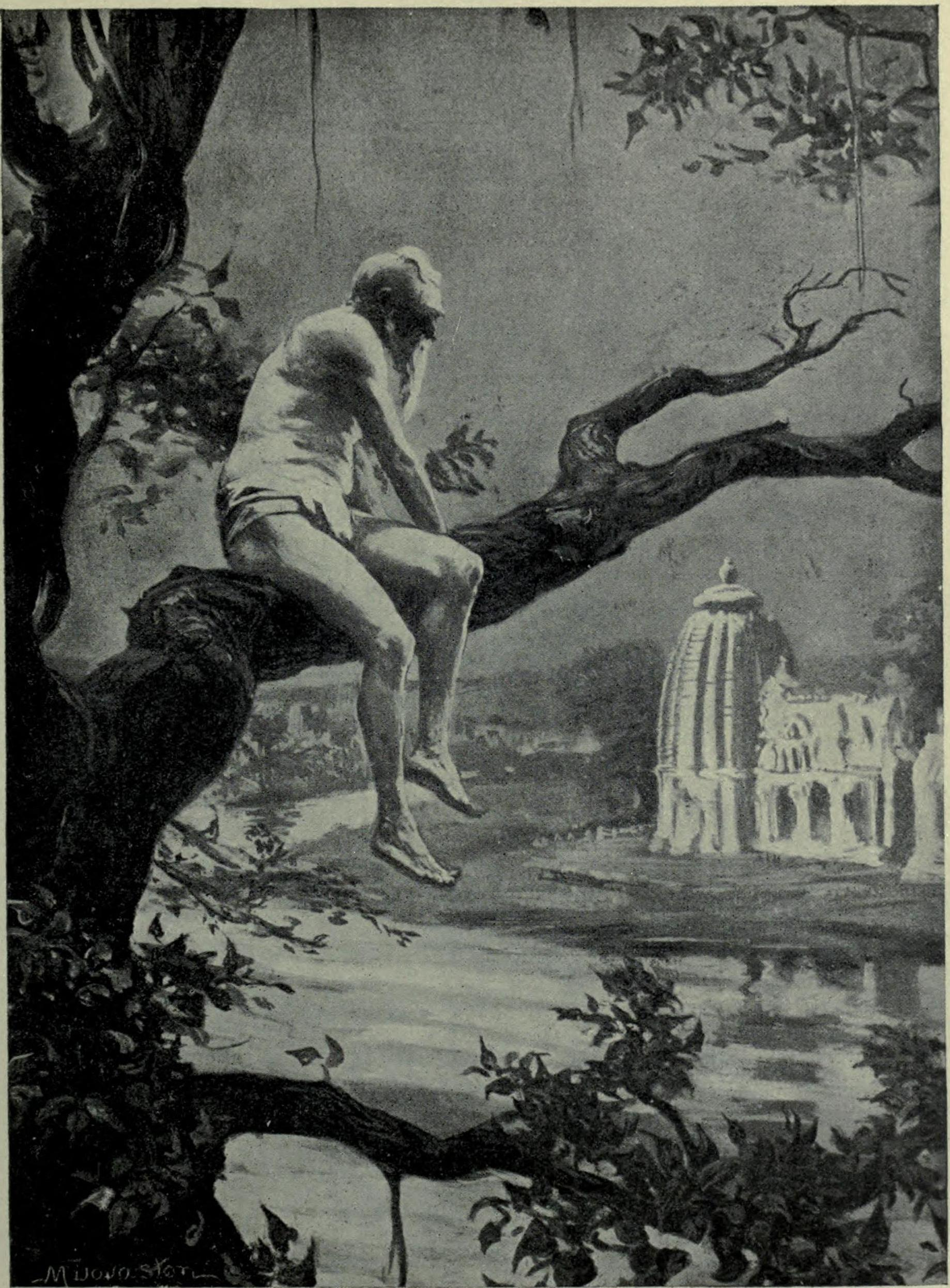 The end of Long and Prospectus Reign. From Hutchinson's story of the nations, containing the Egyptians, the Chinese, India, the Babylonian nation, the Hittites, the Assyrians, the Phoenicians and the Carthaginians, the Phrygians, the Lydians, and other nations of Asia Minor.